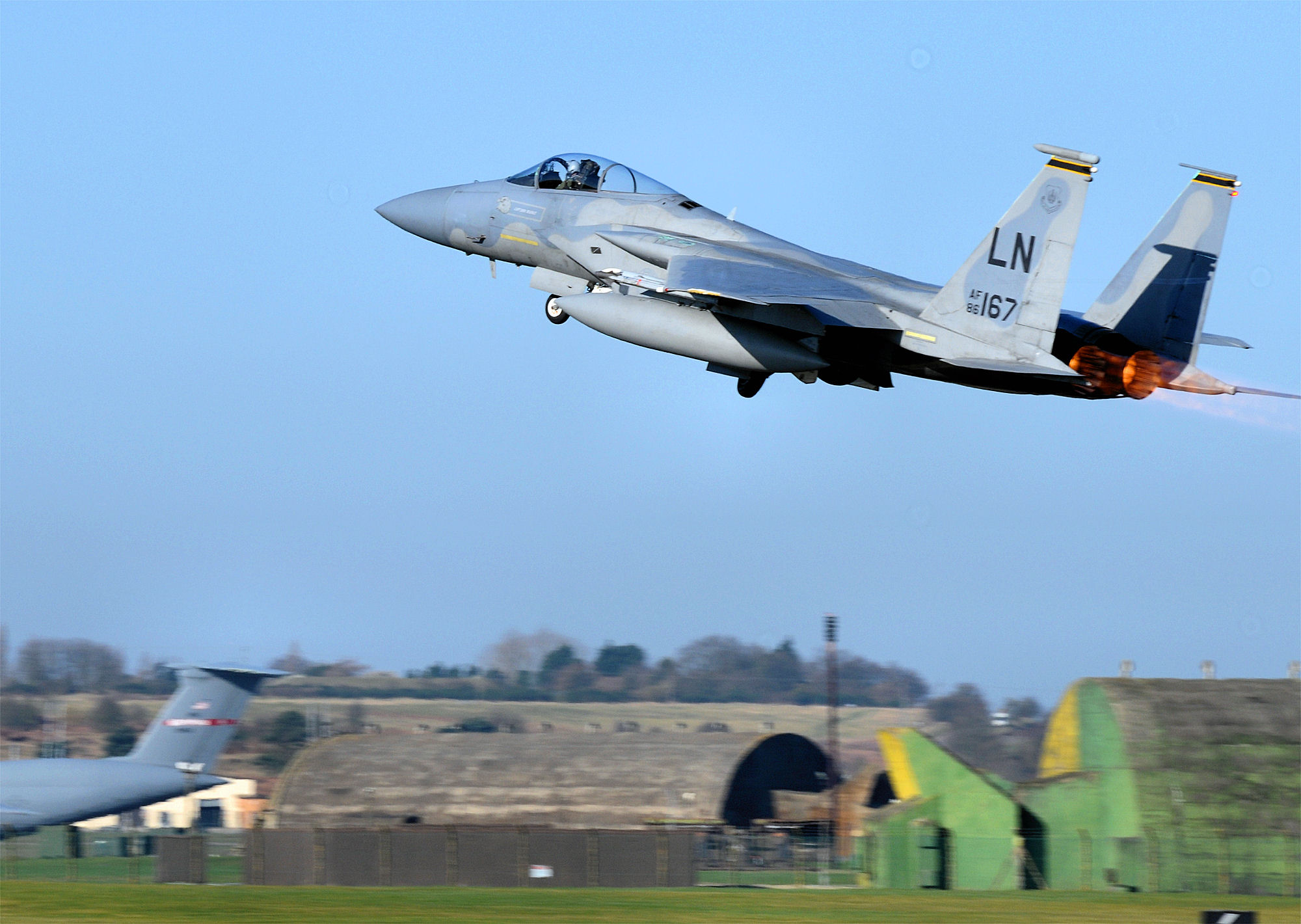 A 493rd Fighter Squadron F-15C Eagle stows it’s landing gear after taking off to fly to Gando Air Base, Spain March 6, 2009. F-15s from RAF Lakenheath are flying to Spain to participate in a two-week dissimilar air combat training exercise. (U.S. Air Force photo by Staff Sgt. Nathan Gallahan.)